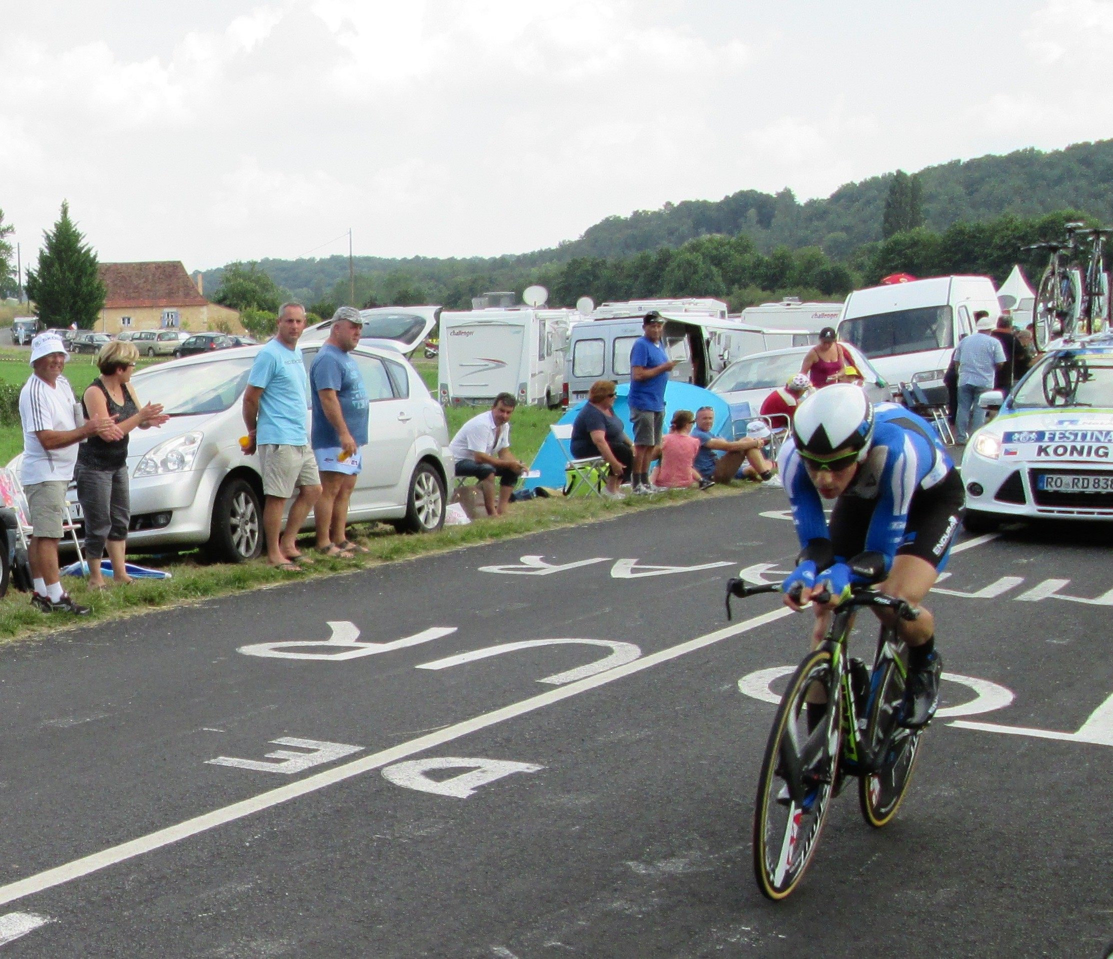 Leopold König during the 2014 Tour de France, Stage 20. Photo taken 1.5 km after Beleymas, Dordogne.